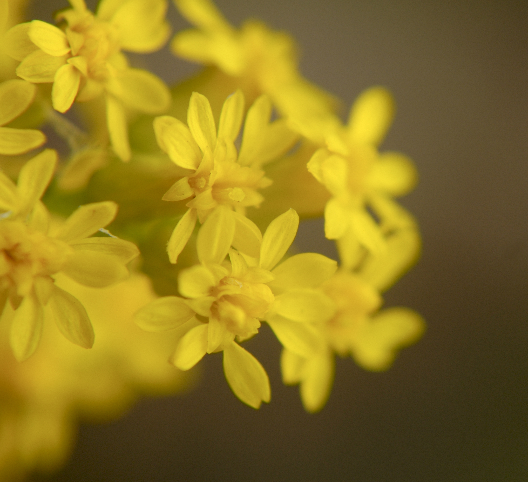 Solidago nemoralis at the James Woodworth Prairie Preserve, Glenview, IL, USA